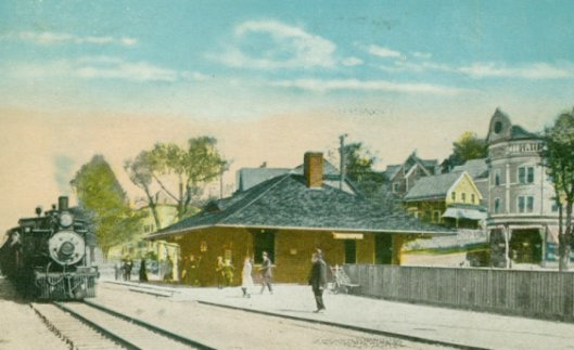 Early color divided back postcard of Beachmont station